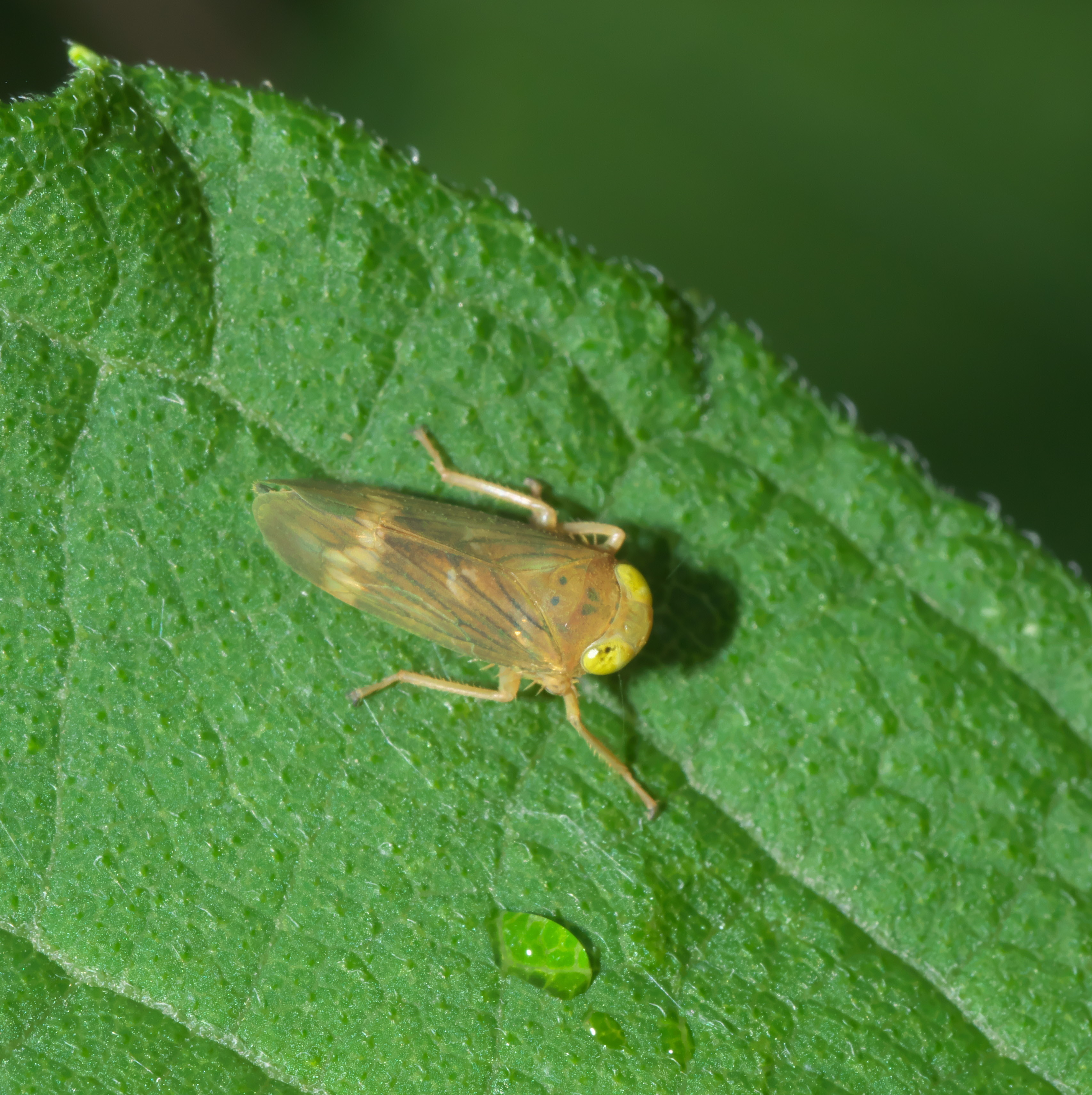 Jikradia olitoria, Family: Leafhoppers, ID Confidence: 98